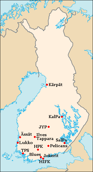 SM-liiga teams located in Finland map